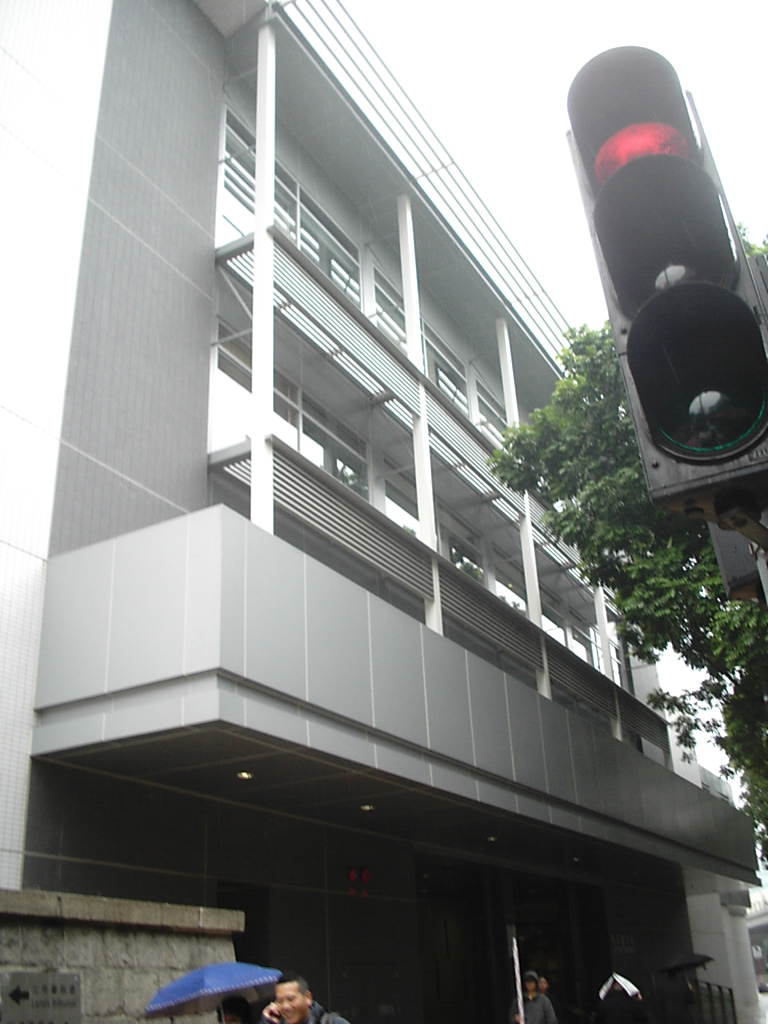 South Kowloon Magistracy